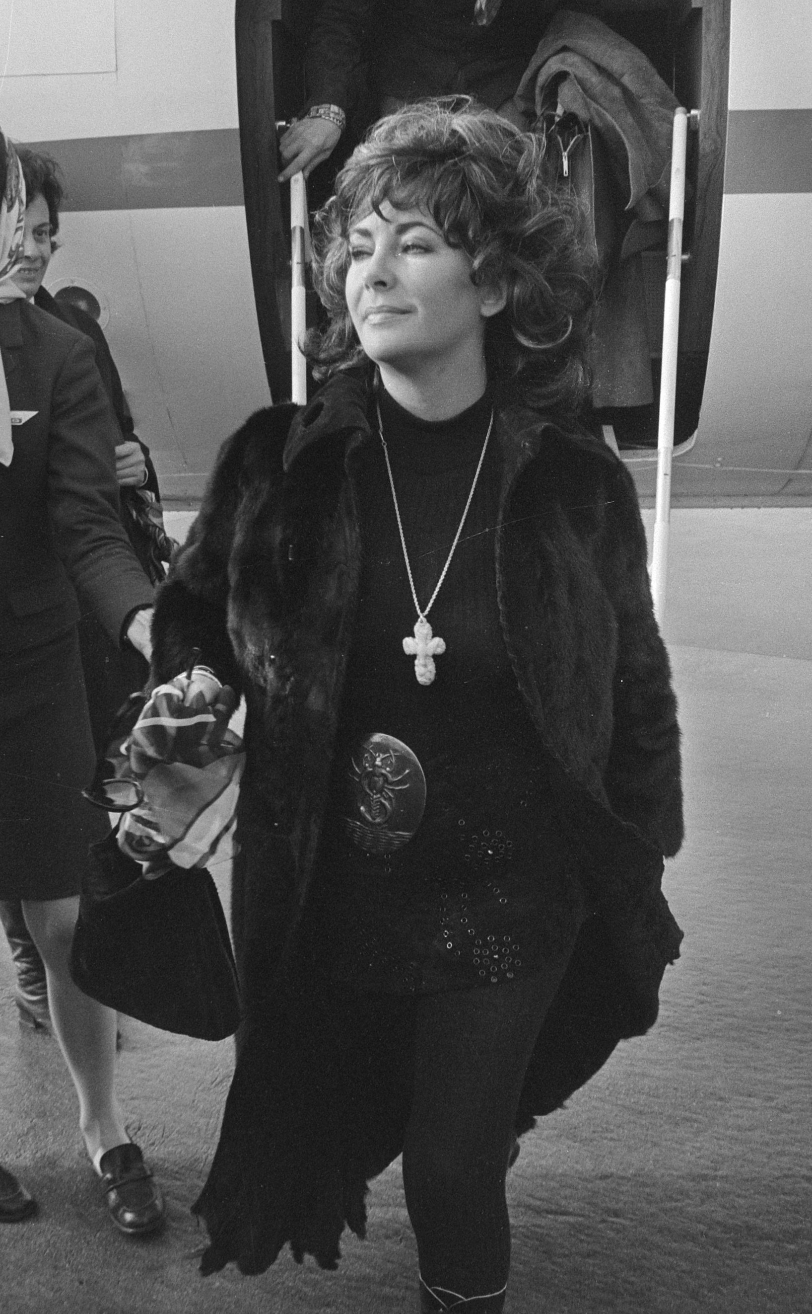 Elizabeth Taylor after landing at Schiphol